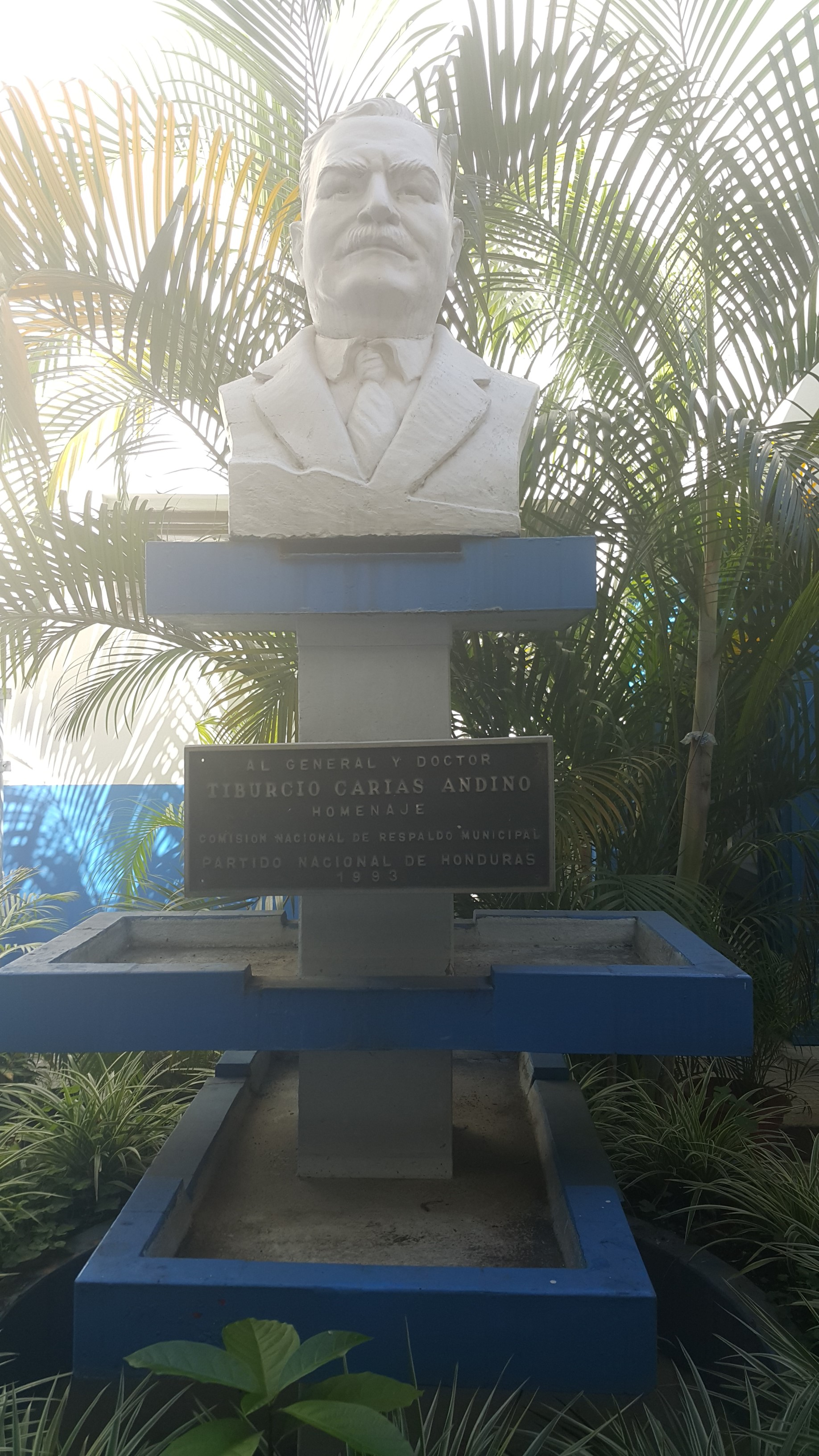 A Tiburcio Carias Andino Statue can be found in the National Party of Honduras. headquarters